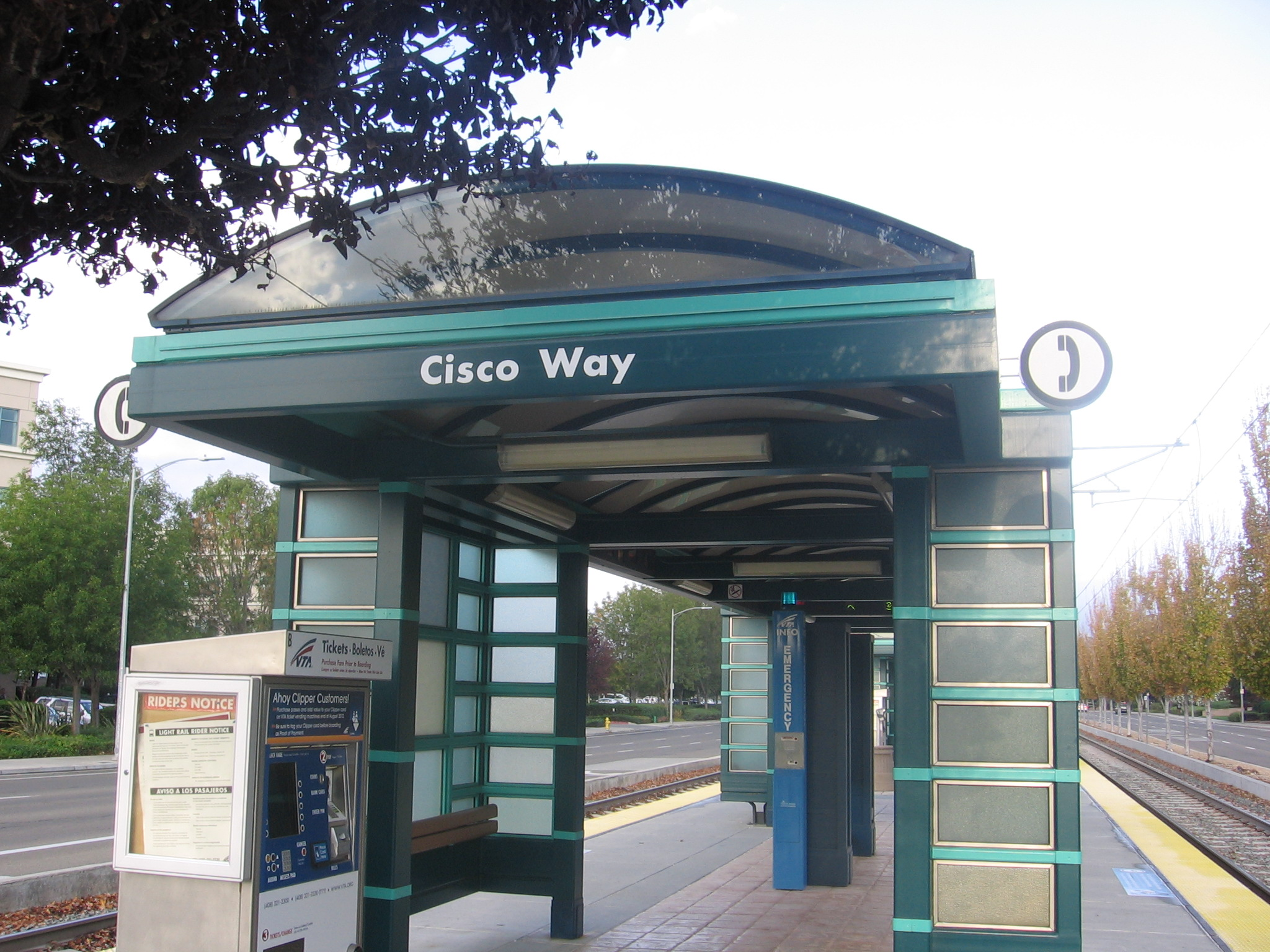 The Cisco Way (VTA) light rail station at East Tasman Drive and Cisco Way in San José, California, USA.